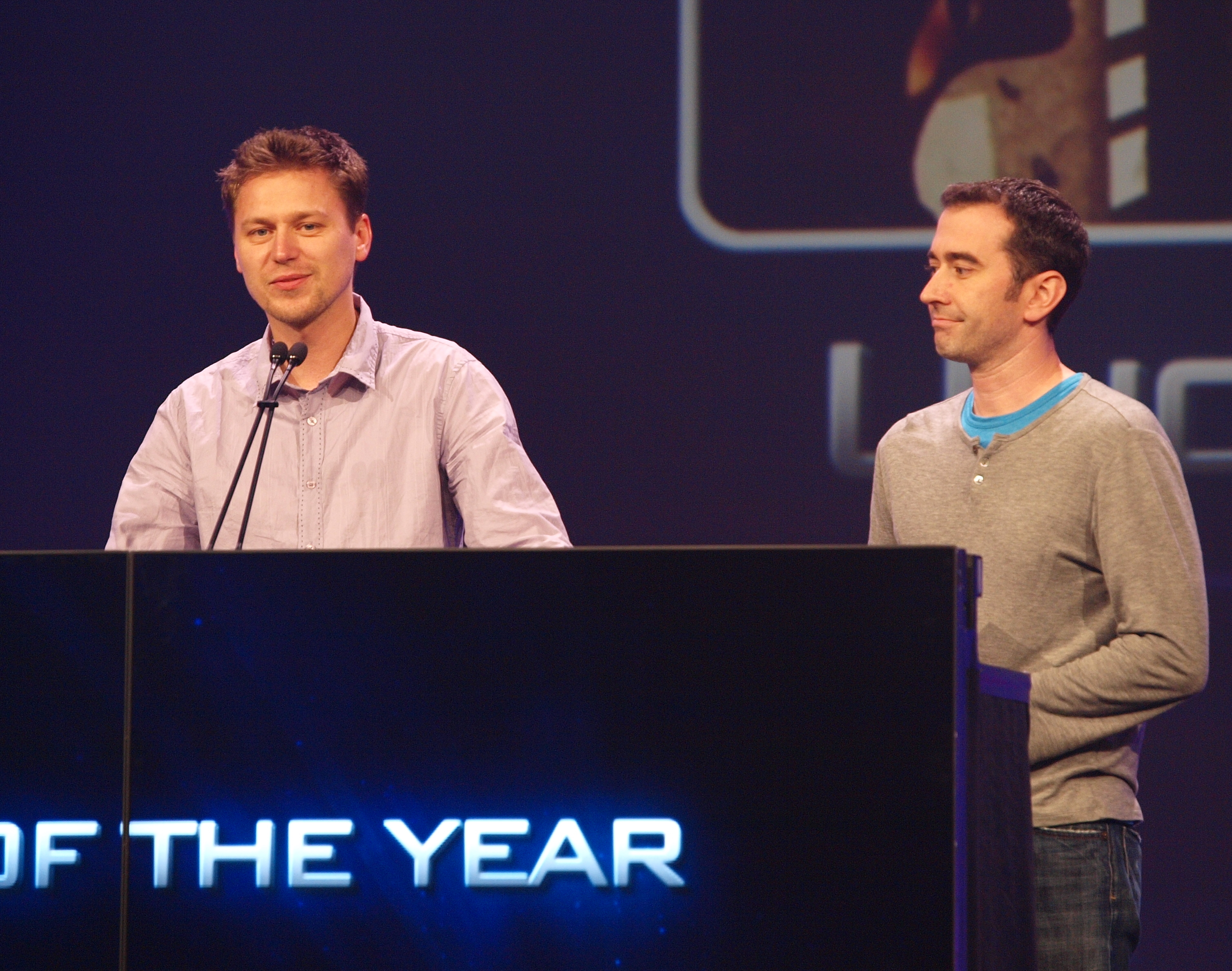 Uncharted 2